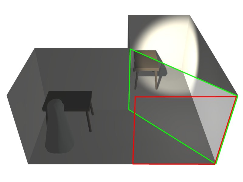 Illustration of the Pepper's Ghost illusion. Created by Wapcaplet in Blender.